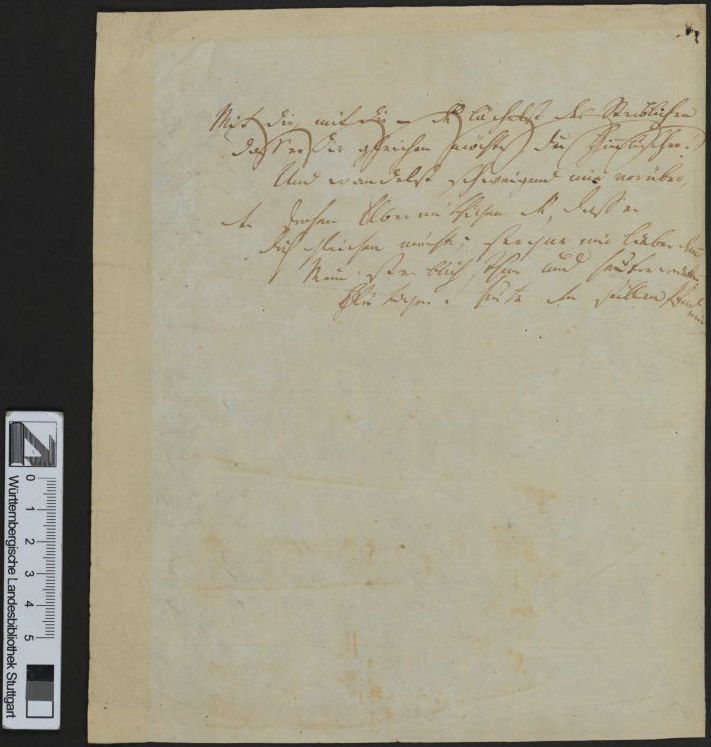 Manuscript by Friedrich Hölderlin: Des Morgens, page 2.